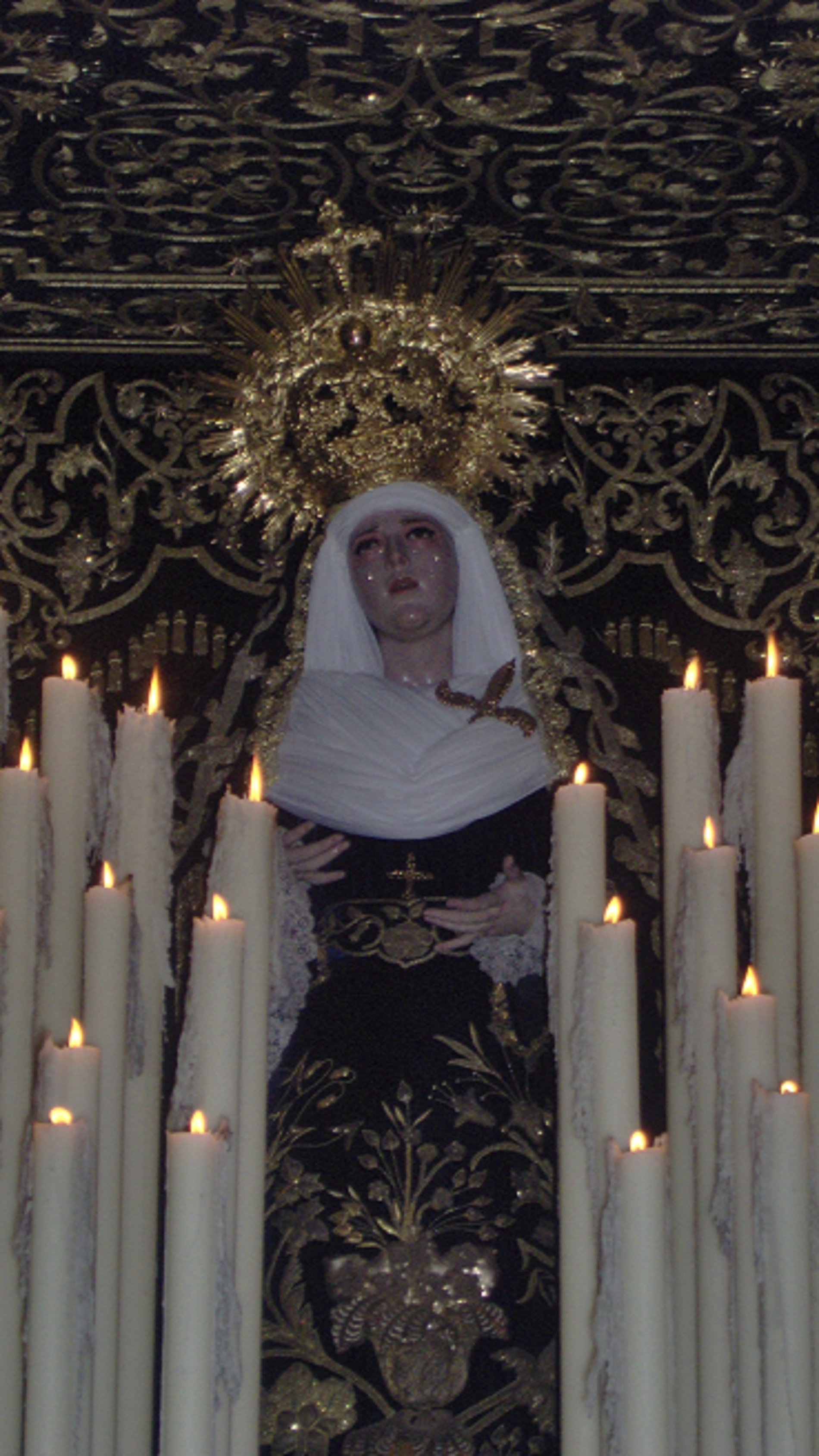 A photograpy of 'Nuestra Señora del Mayor Dolor en su Soledad', Virgin of 'Hermandad de la Carretería', Seville.